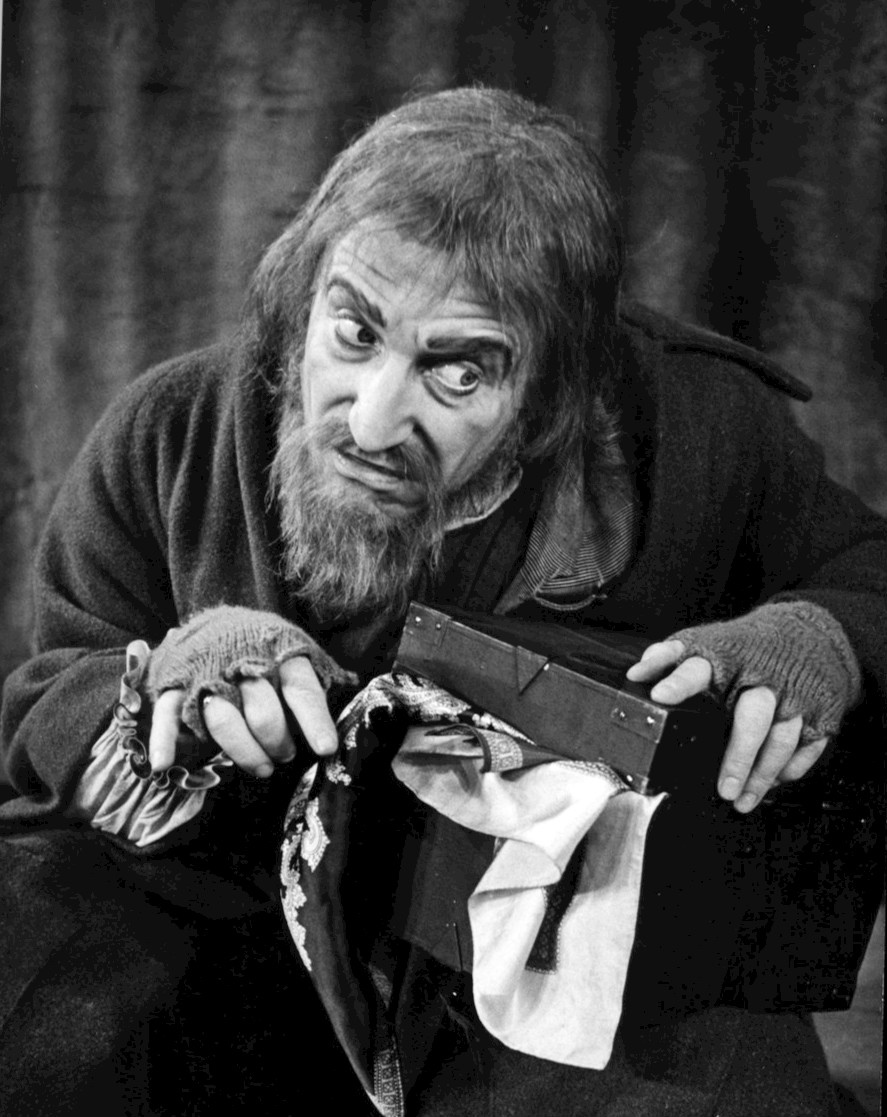 Photo of Clive Revill as Fagin from the 1963 Broadway production of Oliver!.